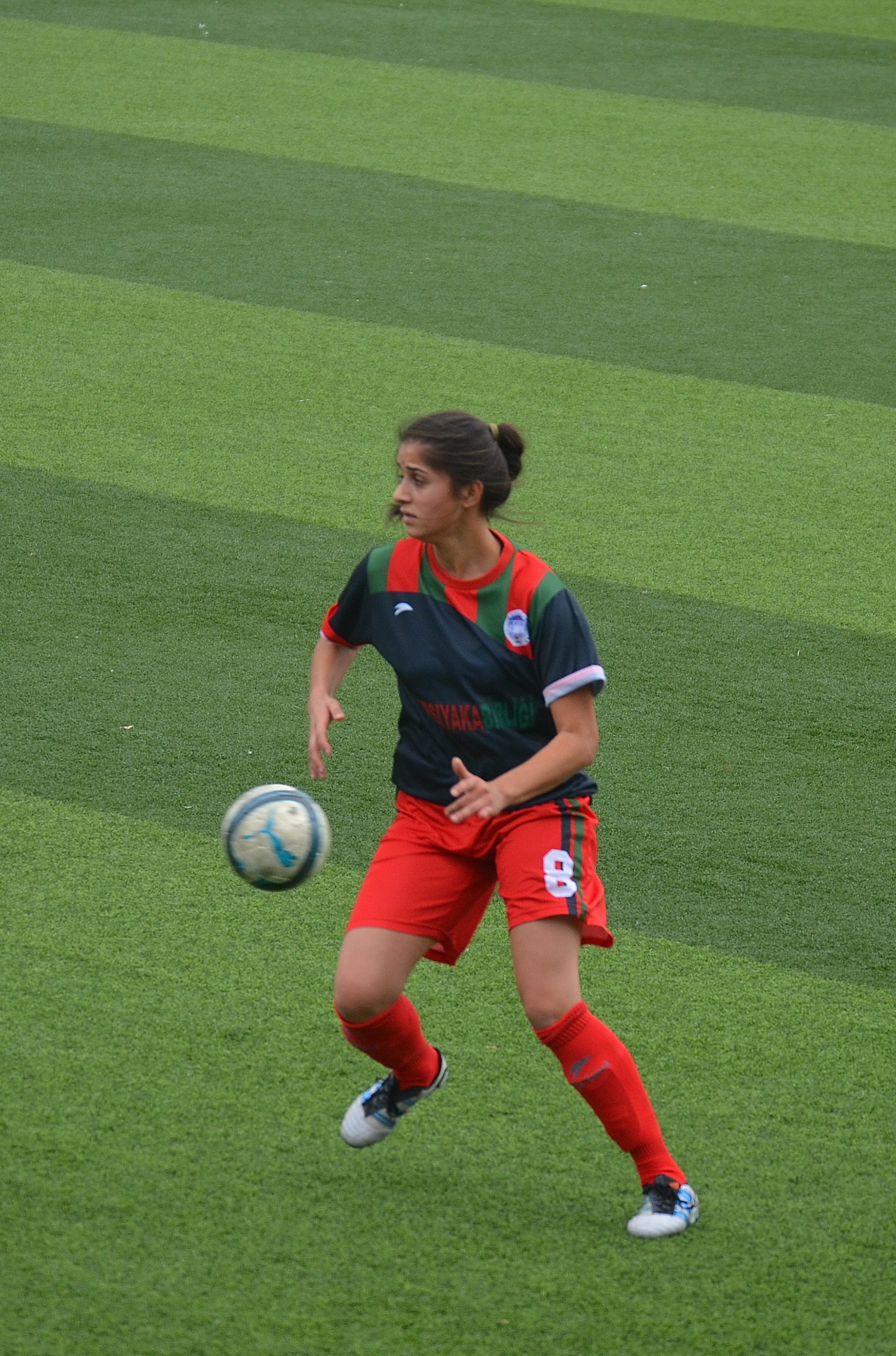 Bahar Kol playing for Karşıyaka BESEM Spor in the 2014-15 season.